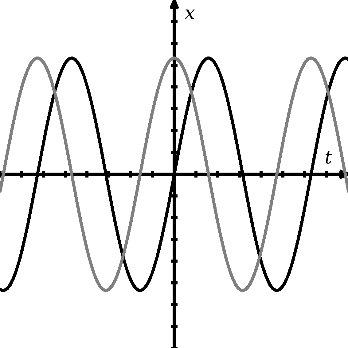 Two oscillations with different phases